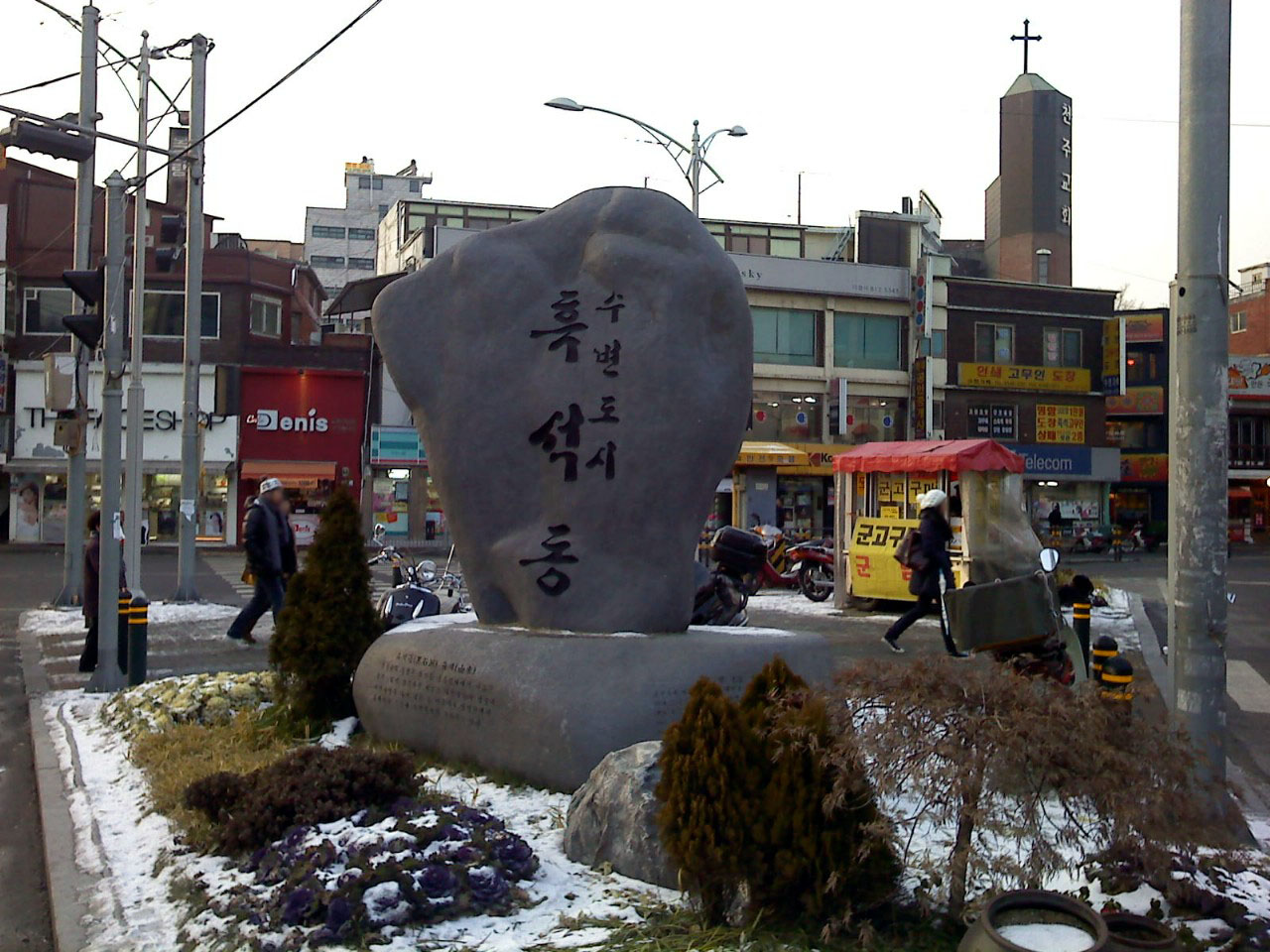 Heukseok-dong, A waterfront city (수변도시 흑석동)